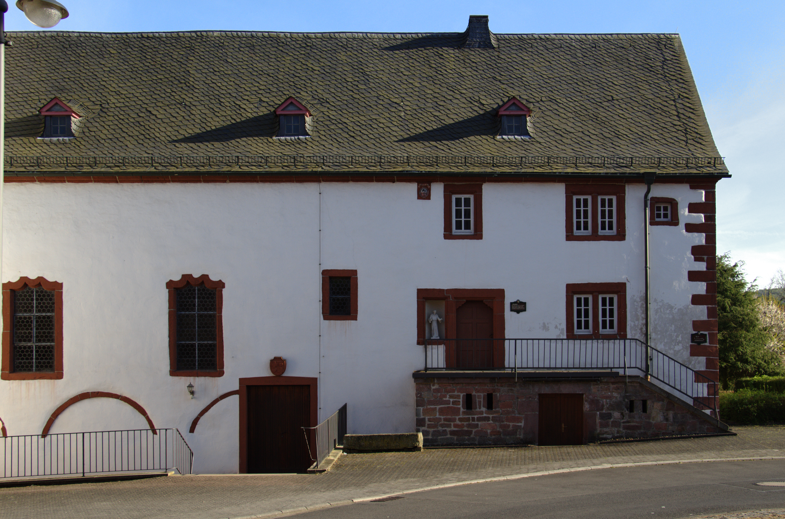 Church (west part) in Blankenau, Hosenfeld, Hesse, Germany.